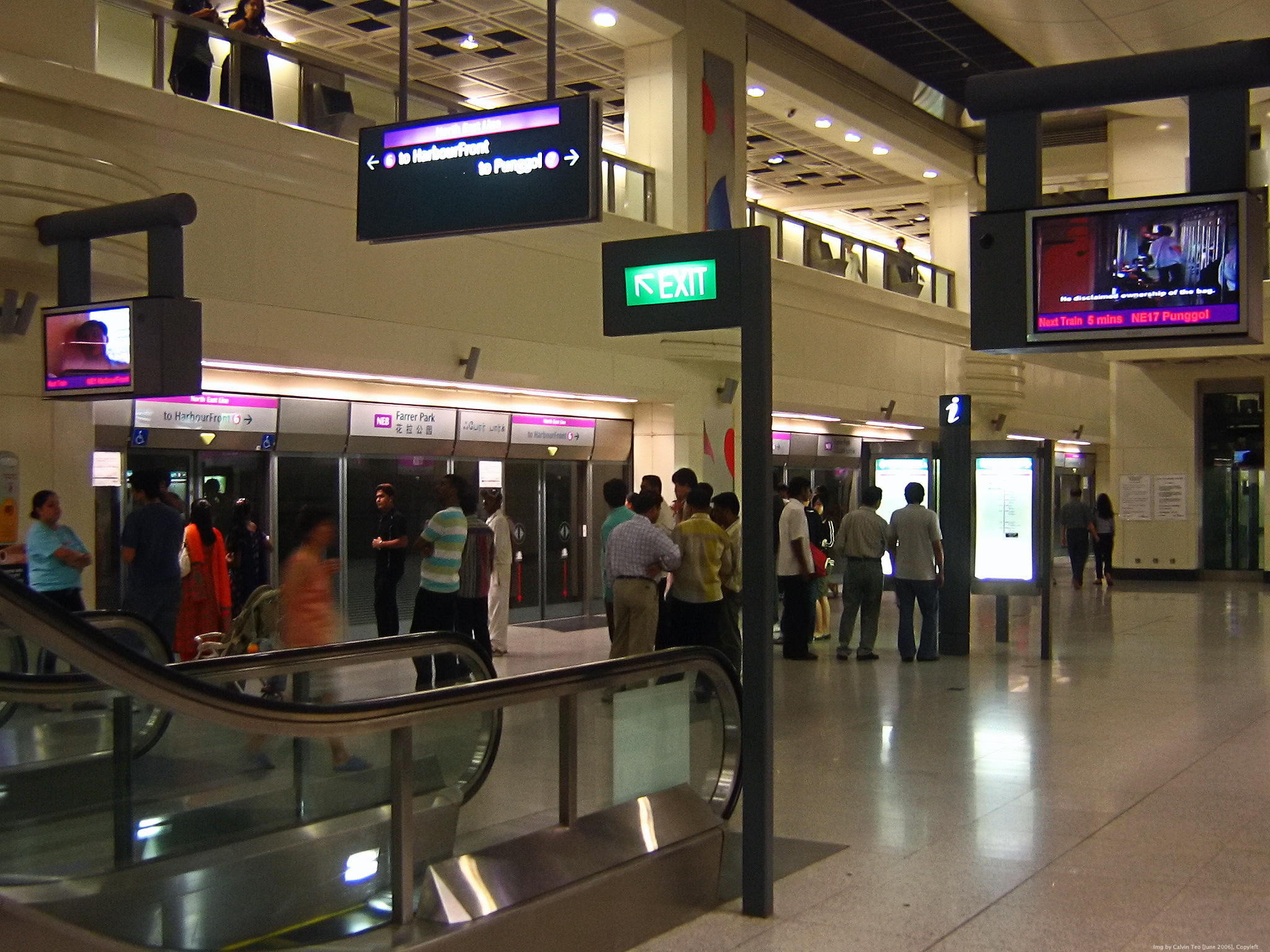 Platfrom level of NE8 Farrer ParkStation on the North East MRT Line in Singapore. Img by Calvin Teo, October 2006